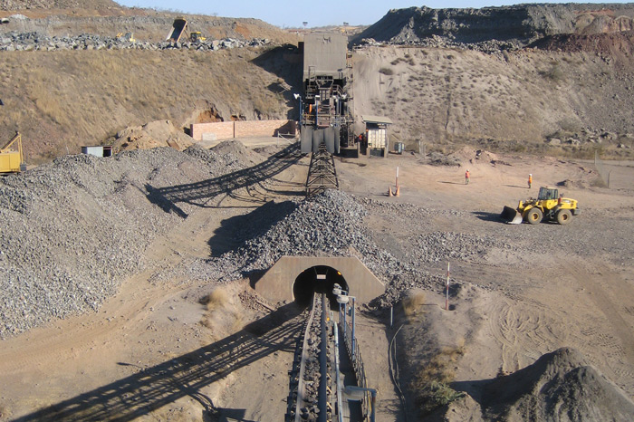 Processing facilities at the Mupane Mine in Botswana